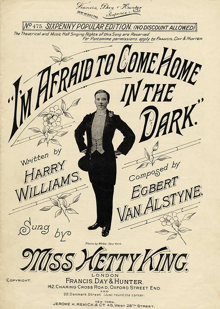 1907 Sheet Music cover. cite - People Play PeoplePlayUK allows reproduction and reuse of items accessed through the website for non-commercial educational and research purposes (as required by the New Opportunities Fund), except where copyright ownership by a third party has been explicitly stated, in which case written permission from the rights holders will be required to use the items. funded by the New Opportunities Fund (a UK government programme to make the collection available to the public). This image was first produced in 1907.